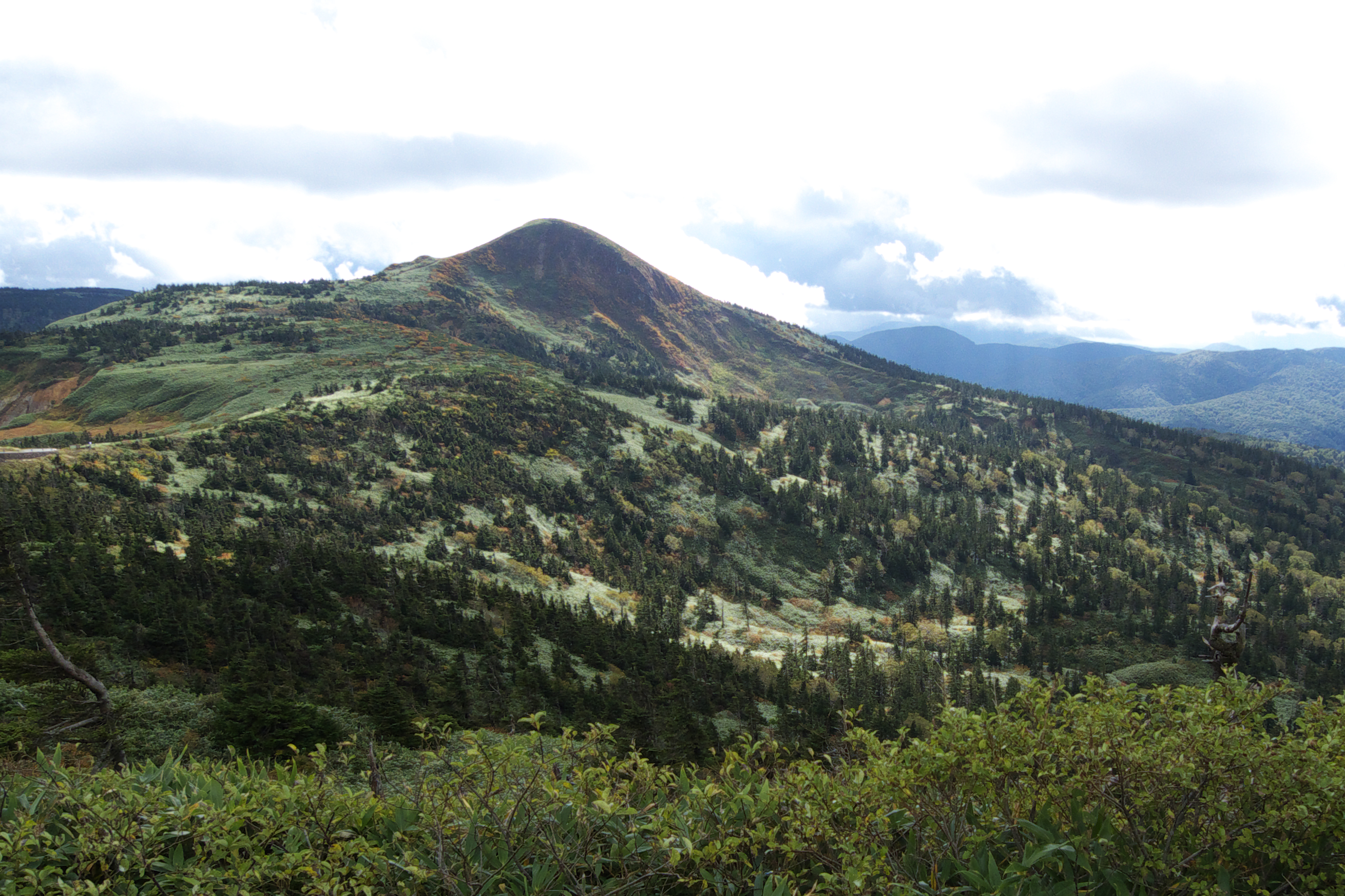 Mount Mokko (Mokkodake) in Semboku City, Akita Prefecture, Japan, as seen from the Akita/Iwate Prefectural Road 318